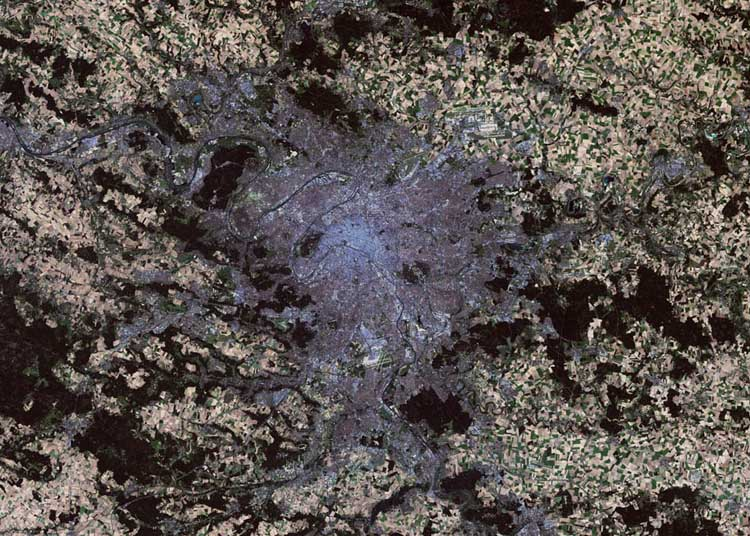 Paris from the NASA Landsat 7 satellite. In the above image, the Seine River wends its way through the center of the image. The gray and purple pixels are the urban areas. The heart of the city appears grayer than the surrounding suburbs. The patchwork of green, brown, tan and yellow surrounding the city is farmland. This false-color image of Paris was made using data collected on August 24, 2000, by the Enhanced Thematic Mapper onboard the Landsat 7 satellite. Image courtesy Ron Beck, USGS Land Processes Data Center, Satellite Systems Branch ”The purpose of NASA's Earth Observatory is to provide a freely-accessible publication on the Internet where the public can obtain new satellite imagery and scientific information about our home planet. The focus is on Earth's climate and environmental change. In particular, we hope our site is useful to public media and educators. Any and all materials published on the Earth Observatory are freely available for re-publication or re-use, except where copyright is indicated. We ask that NASA's Earth Observatory be given credit for its original materials.” Picture prepared for Wikipedia by Adrian Pingstone in November 2003.